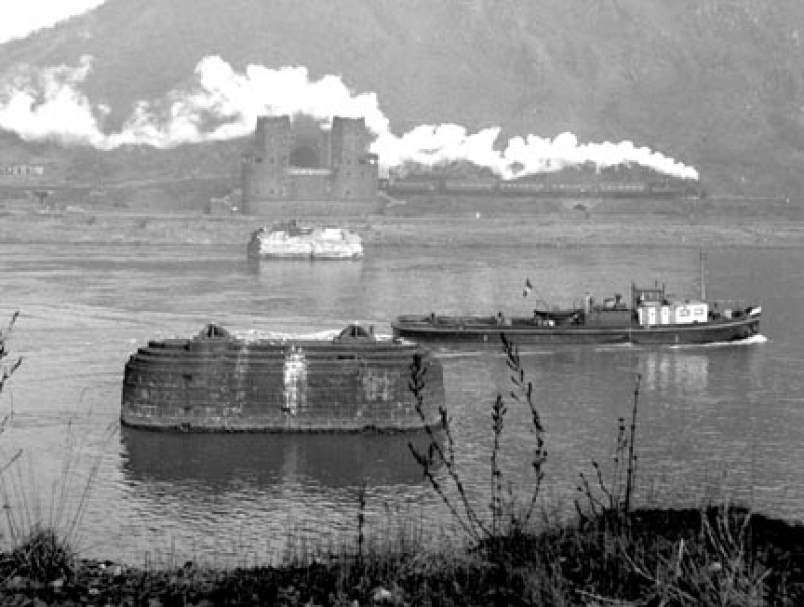 The piers supporting the Ludendorff Bridge were a navigation hazard and were removed during the summer of 1976.